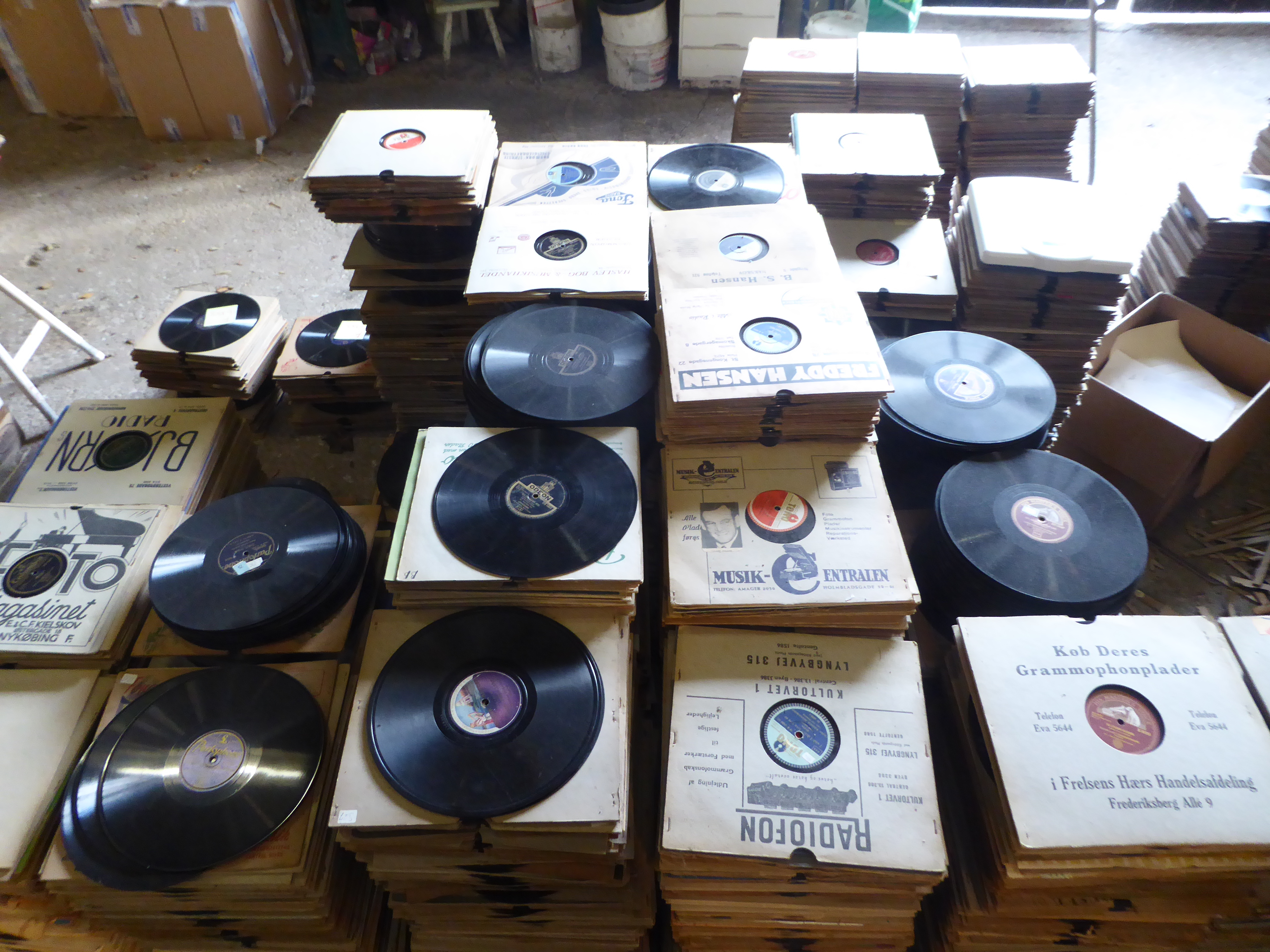 Barn holding the 78er klubben discs